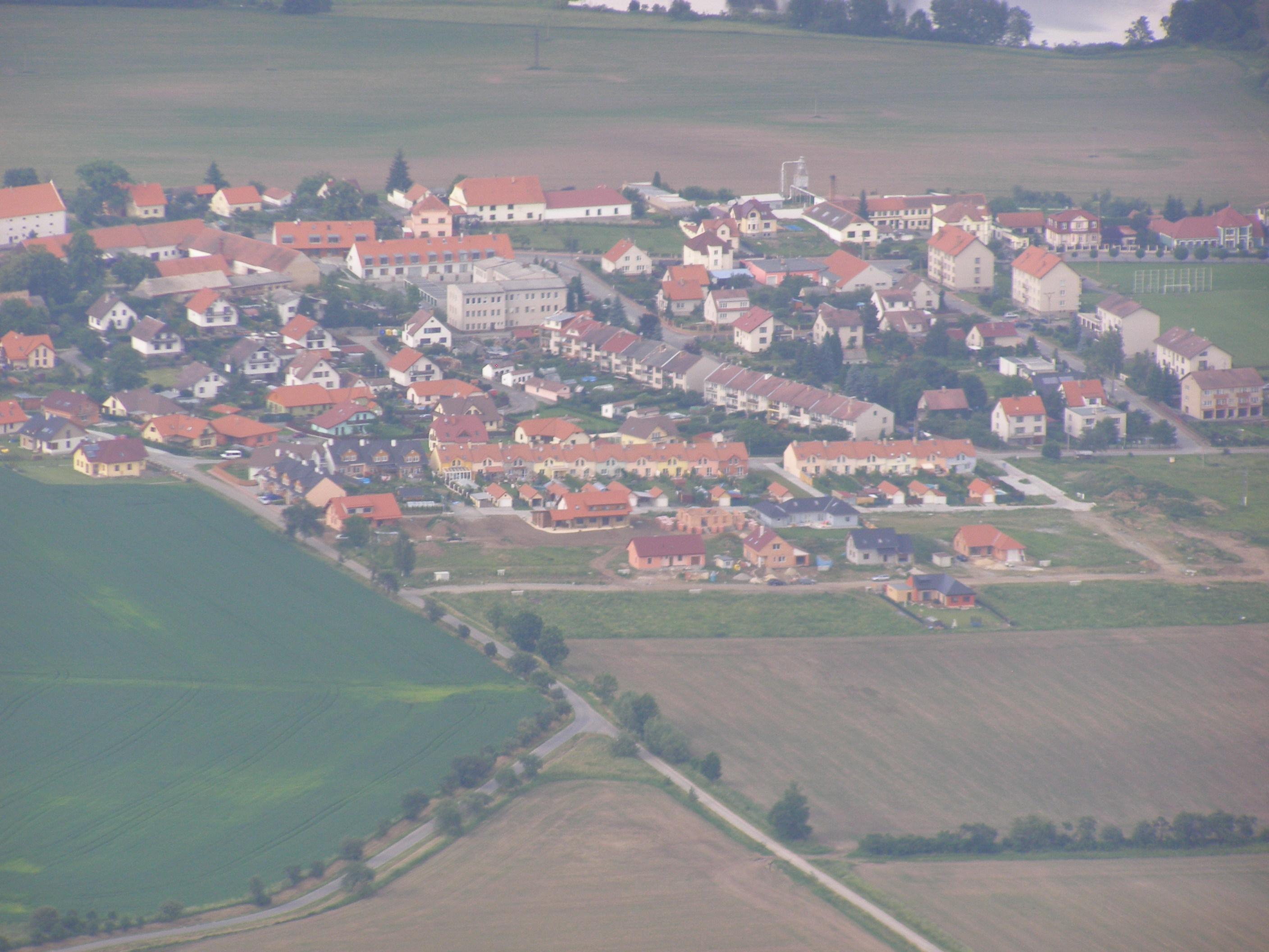 Village Čížová near Písek, Czech republic. Aerial view